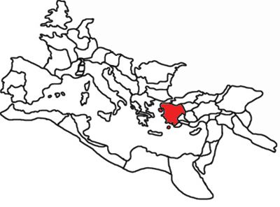 Roman Empire, Asia province highlited